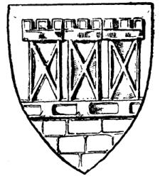 Coat of arms Grzymała from the seal of Mikołaj Błażejewski, 1343